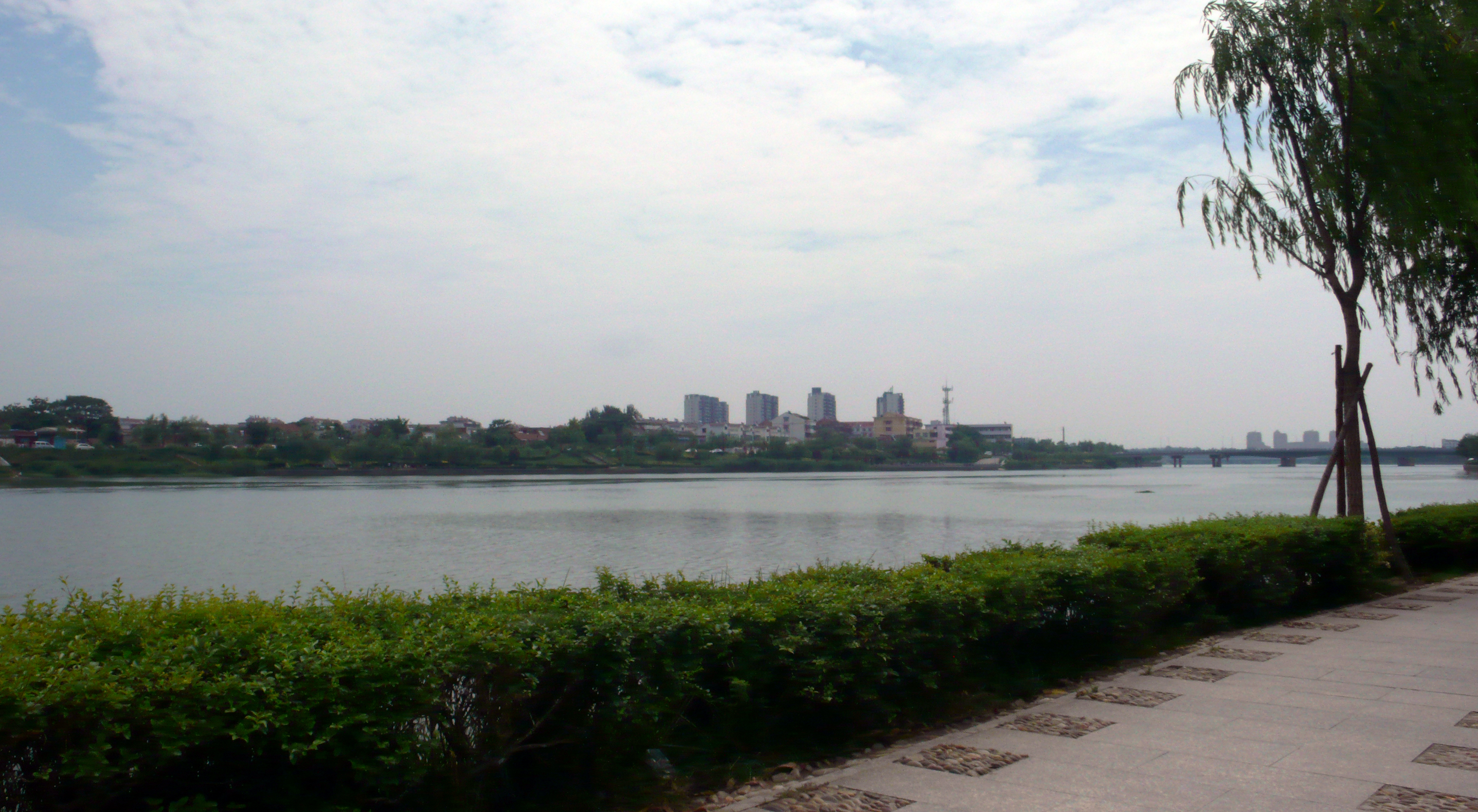 Guo River, the second largest tributary of the Huai River.